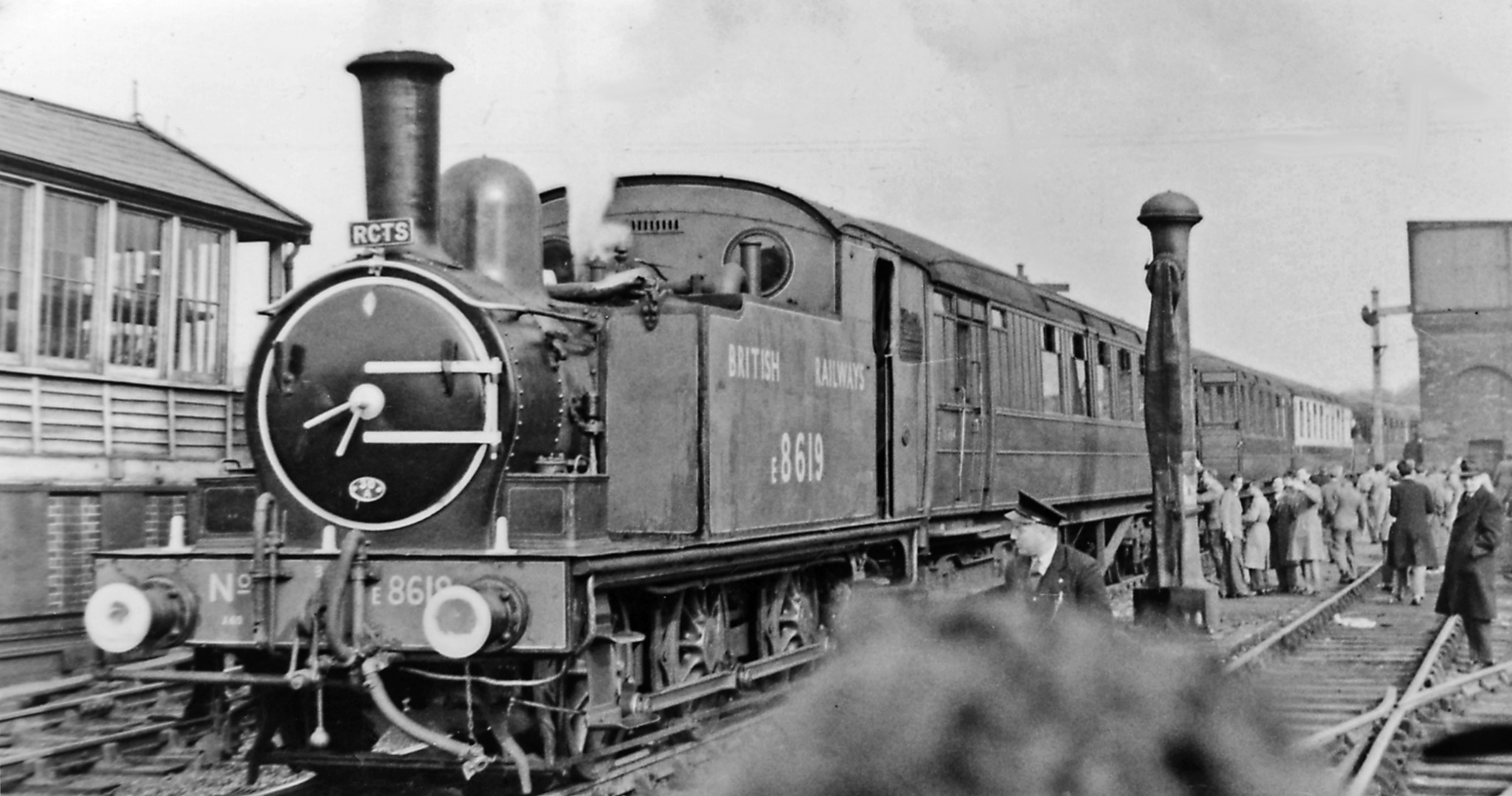 RCTS East London Tour at North Woolwich The RCTS East London Tour of 14 April 1951 (cf. TQ3884 : Rail Tour at Stratford Station) employed the Liverpool Street Station Pilot, starting from Fenchurch Street and going via Millwall Junction to North Woolwich and back to Stratford. This was ex-GE Holden class S56 No. 53 (built 5/1904, LNER class J69 No. 7053, 1946 No. 8619), which was refurbished early in 1948, so acquiring an 'E' prefix; as BR 68619 it survived until 10/61. (See also TQ3380 : Resplendent Liverpool Street Station Pilot at Fenchurch Street). [Pity about the mop of hair in the foreground].